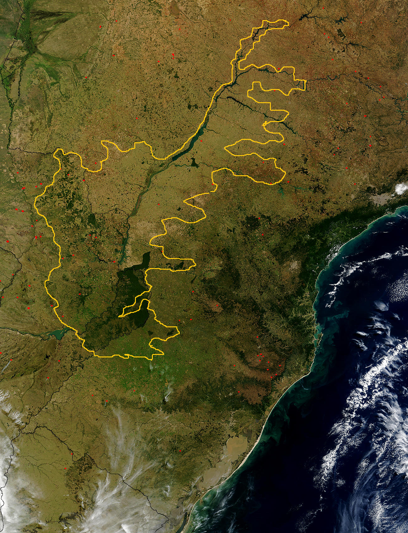 Alto Paraná Atlantic Forest Ecorregion. The yellow line encloses Alto Paraná Atlantic forest as delineated by the World Wide Fund for Nature. I, Miguelrangeljr, made it using NASA Blue Marble imagery.